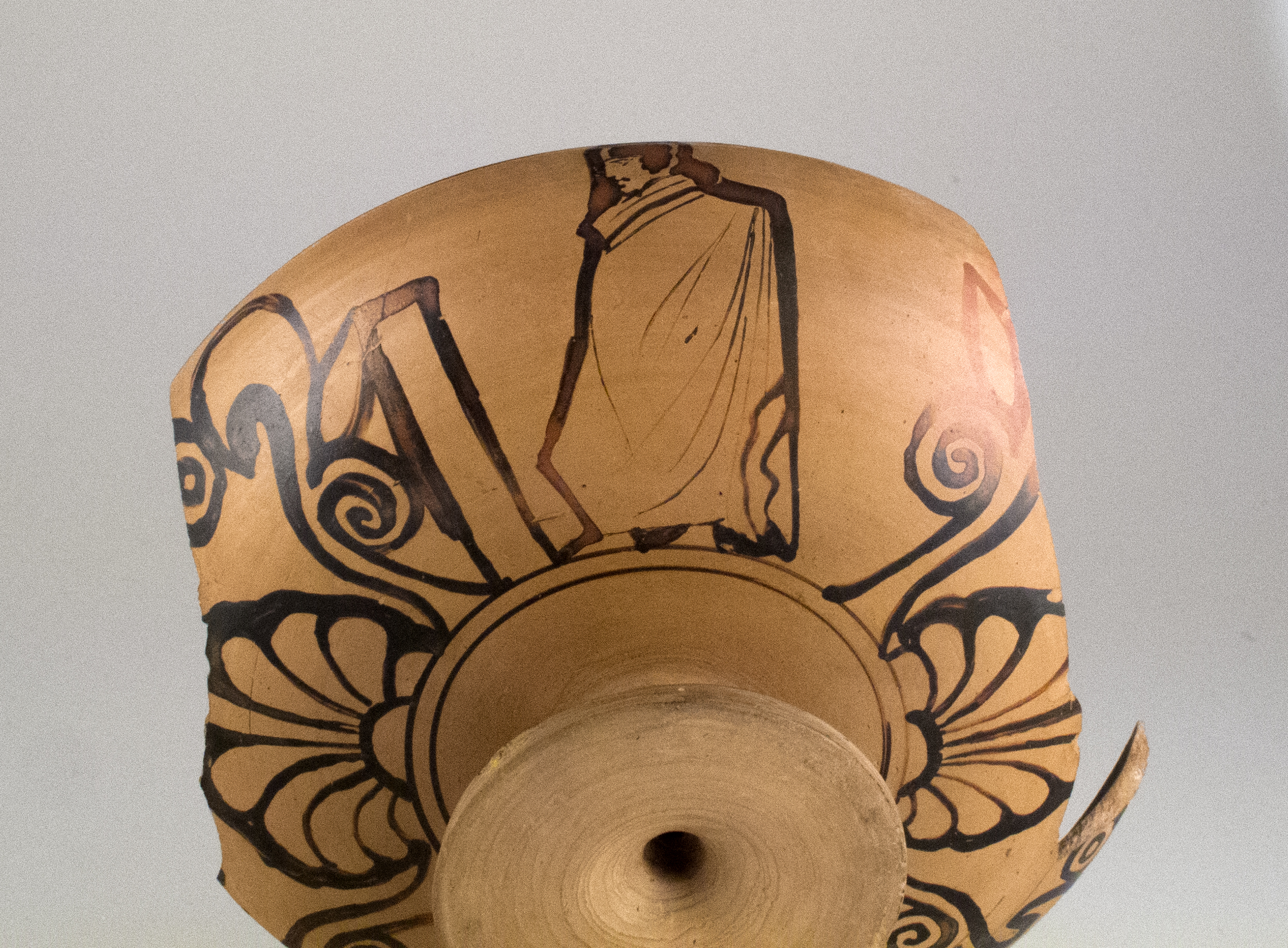 Greek, South Italian, Campanian; Kylix fragment; Vases